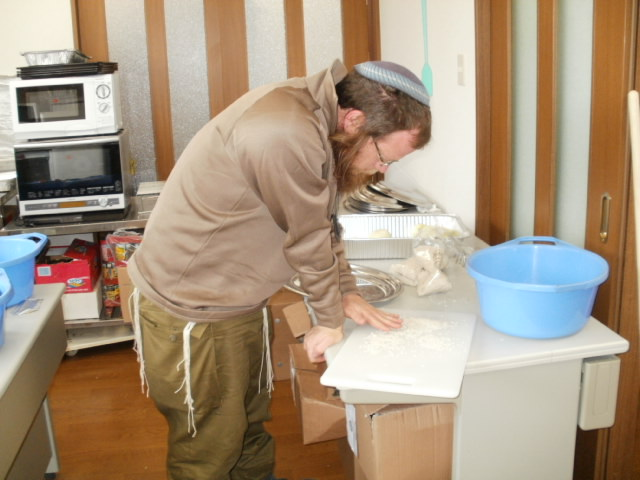 March 31, 2011 The IDF aid delegation members in the city of Kurihara, Miyagi, Japan, are beginning their Sabbath preparations. In the picture, Rabbi Tzvi Mandesbach prepares Challah in a special baking area set aside for members of the aid delegation. The Rabbi kashered the kitchen earlier this week when the aid delegation arrived.